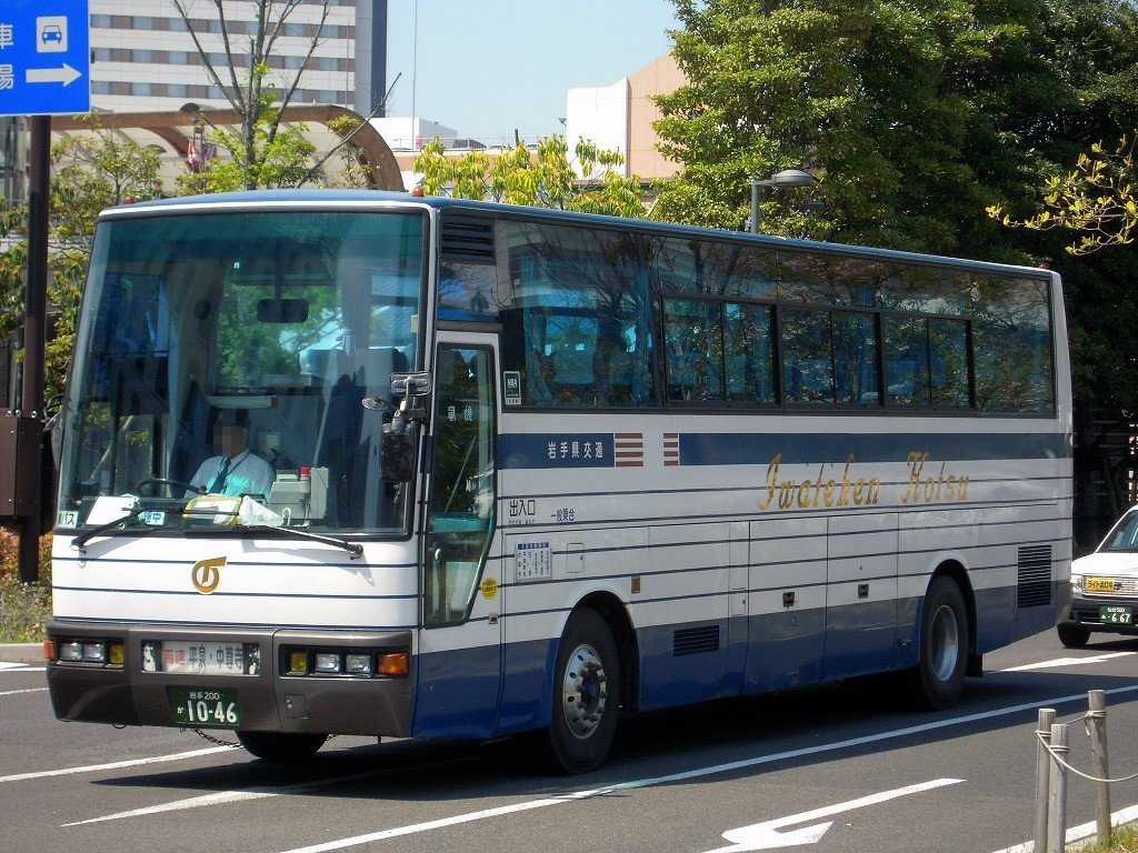 Iwateken kotsu Isuzu Super Cruiser (U-LV771R)Highwaybus "Hiraizumi-Chusonji go"